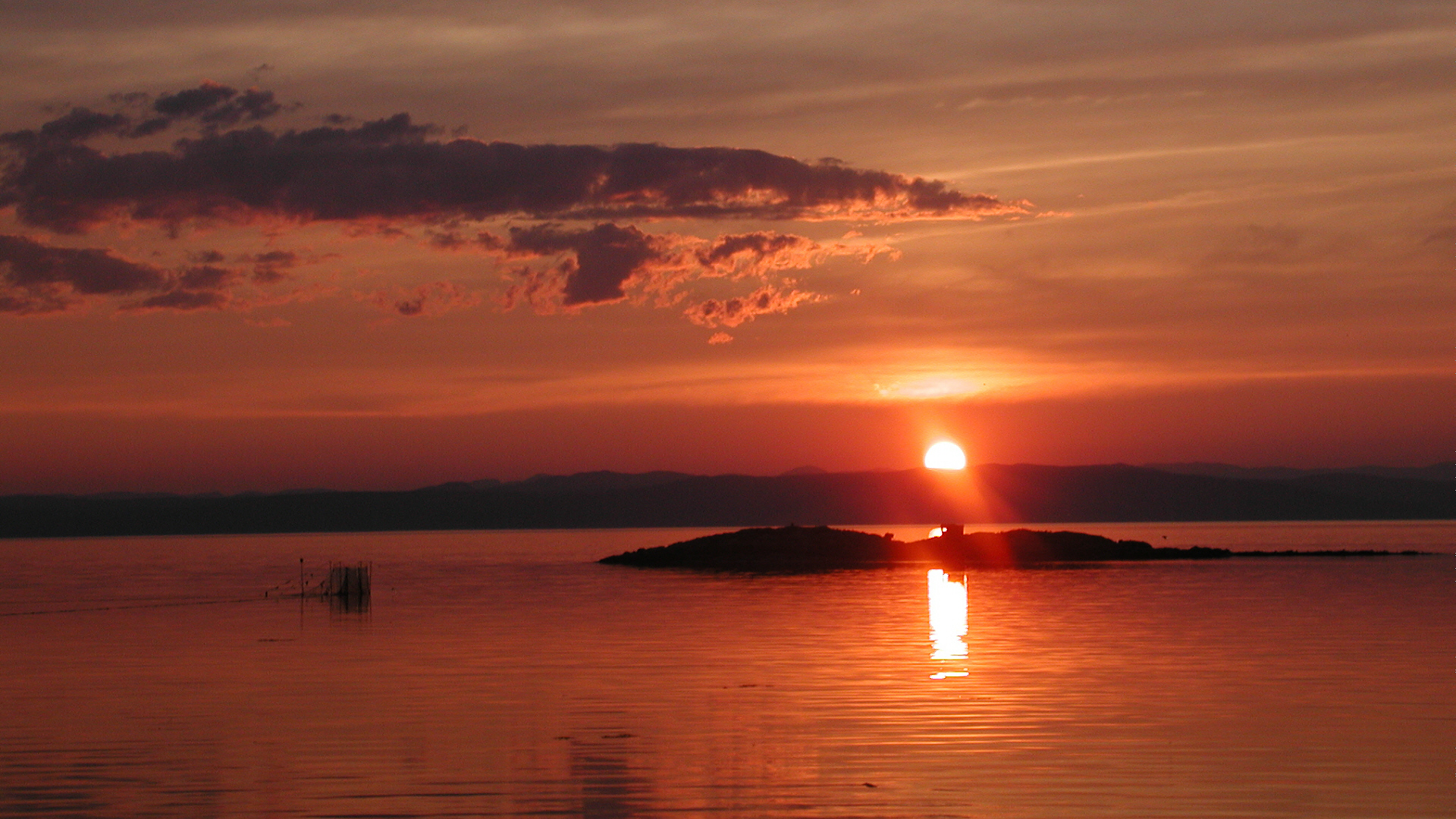 Sunset at Kamouraska on the St-Lawrence river(Quebec) Canada